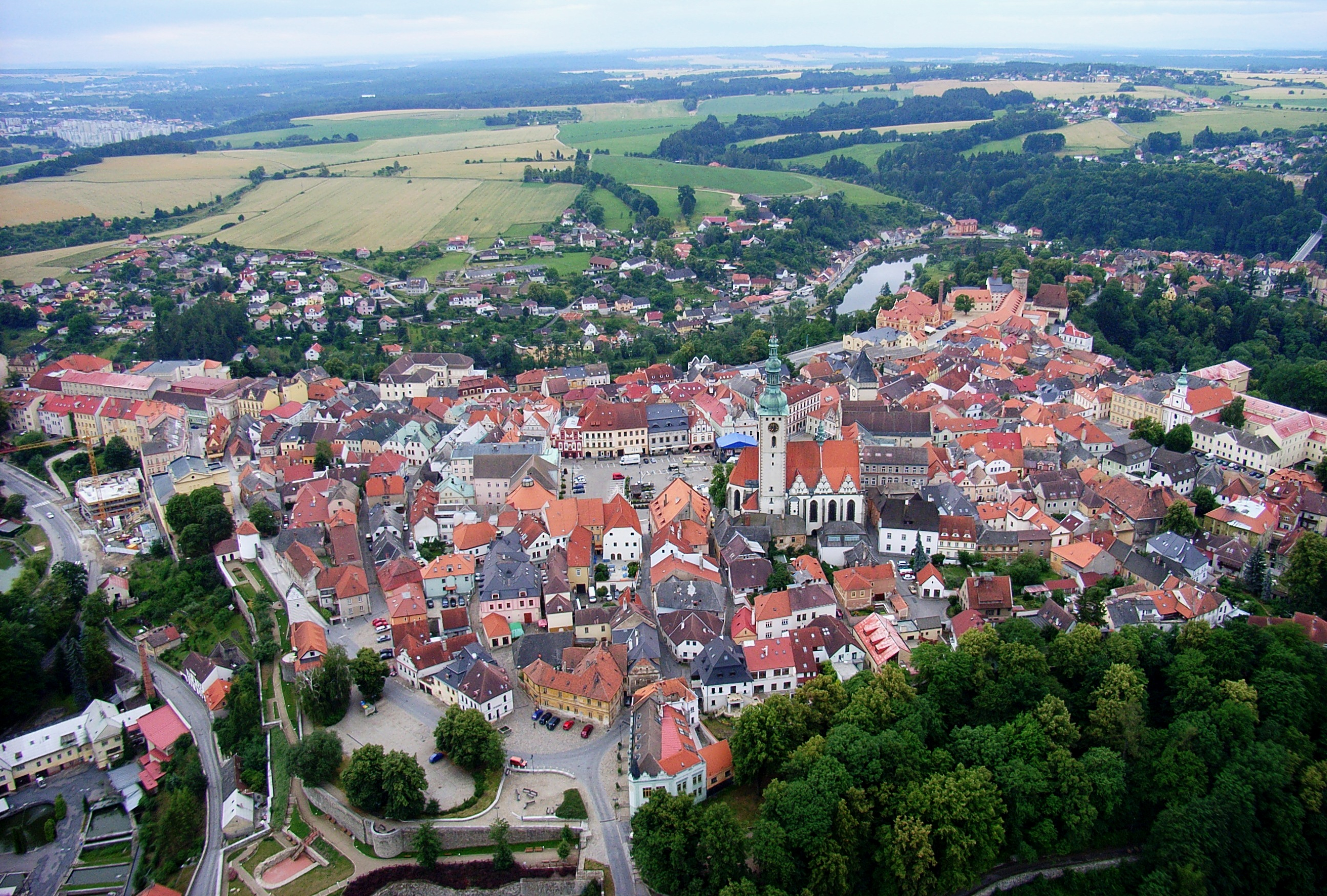 Tábor, Czech Republic. An aerial view of the Old Town from north.